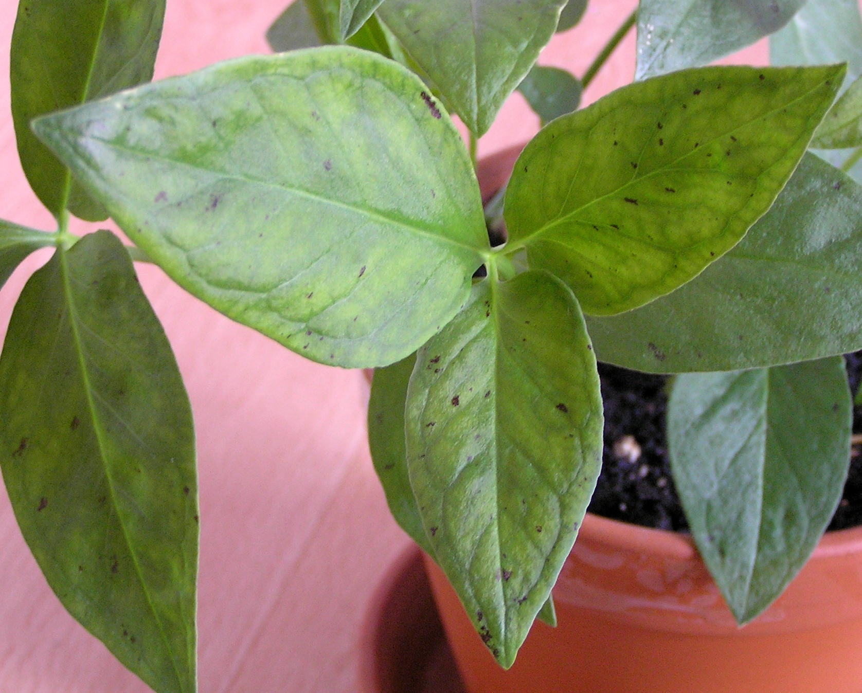 Pinellia ternata leaf